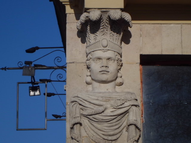 Caryatid, native American (Rouen, Normandy)